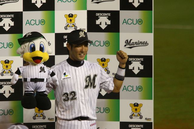 Shunichi Nemoto, infielder of the Chiba Lotte Marines, at Chiba Marine Stadium.